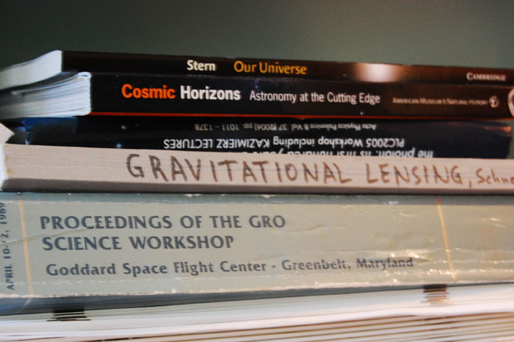 Books and reports in B. Paczynski office.